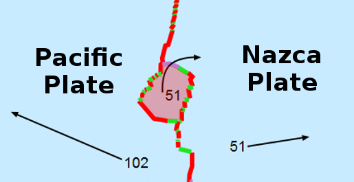 A map of the Easter Plate